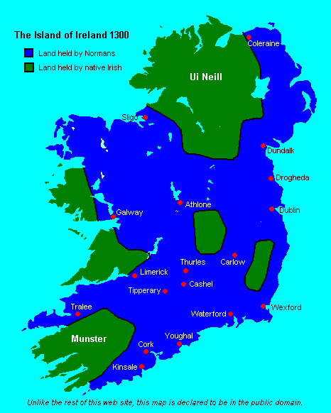 The Island of Ireland, 1300